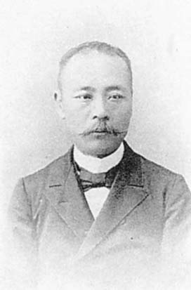 G. Hamada, Professor of Gynaecology and Obstetrics.